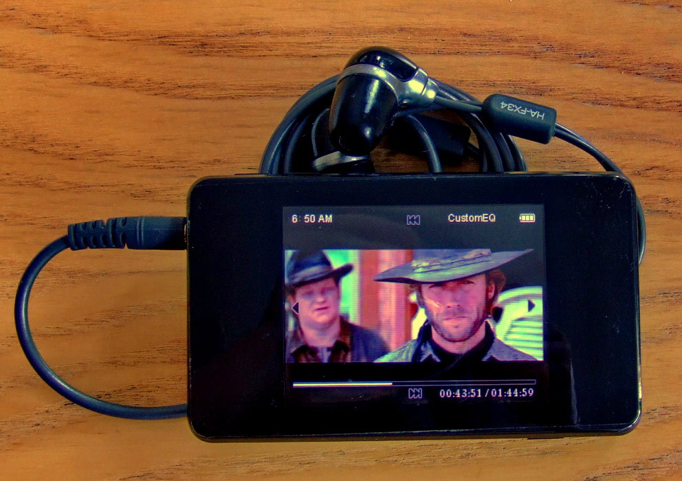 This is a photo of the 2GB iriver Clix2 playing High Plains Drifter. The playable avi file was encoded with the "XviD 1.1.0 Final" codec at 320 x 240. Player is using firmware 1.16.